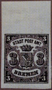 Postage stamp, Bremen city post, 3 pf., 1855